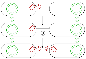 Description : This image is a line drawing of bacterial conjugation. The image shows, going from the top to the bottom, two bacteria before, during, and after conjugation. On the top then are two bacterium, before conjugation, each with their own chromosomal DNA. Only one bacterium shows a plasmid. In the middle, are the same two bacterium during conjugation. A pilius (connection) forms between the two bacteria and a linear copy of the plasmid is transported through the pilius to the other bacterium. On the bottom, are the same two bacterium after conjugation. The pilius is now gone and each bacterium has a plasmid. 05:19, 14 August 2002 Magnus Manske 365x253 (2,092 bytes) (Copied from Nupedia)